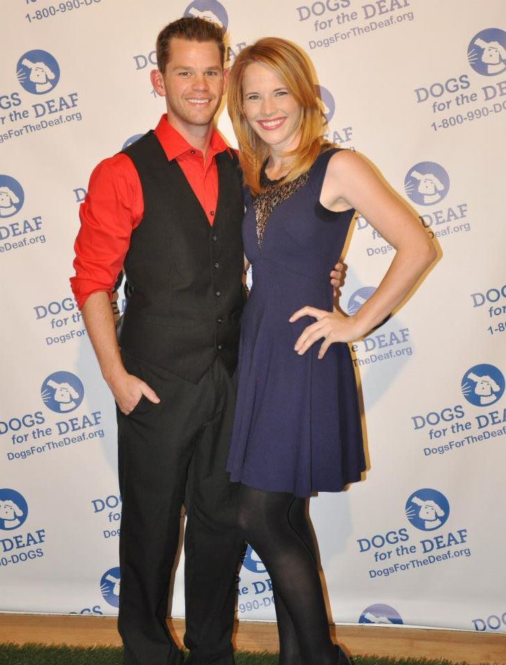 Switched at Birth stars Ryan Lane (left) and Katie Leclerc (right) at a charity event for Dogs for the Deaf in New York City on 13 April 2013.